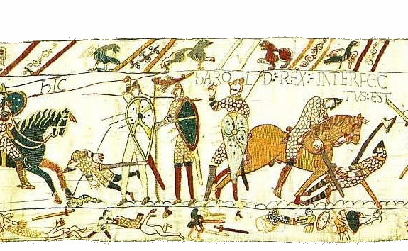 Bayeux Tapestry. Scene 57